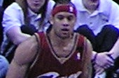 Dallas Mavericks at Cleveland Cavaliers game